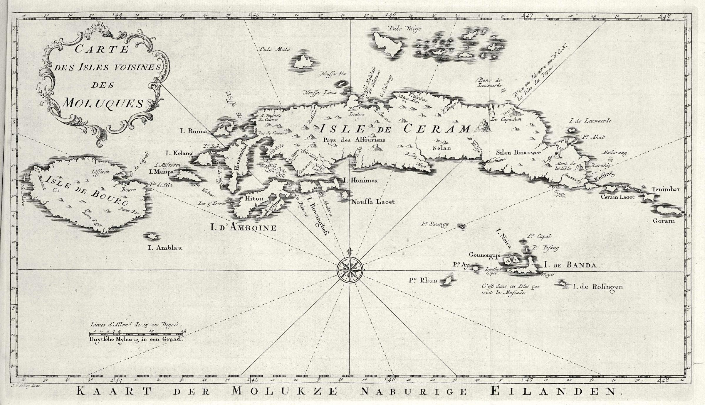 Map of Ceram, Ambon and the Banda islands. Kaart der Molukze Naburige Eilanden / Carte des Isles voisines des Moluques.